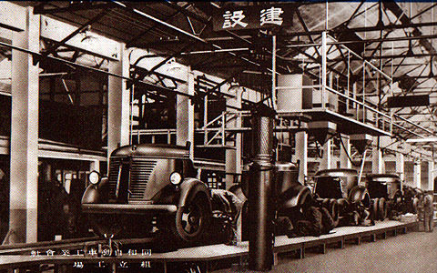 Factory of Dowa Automobile. This photo was taken before 1945.